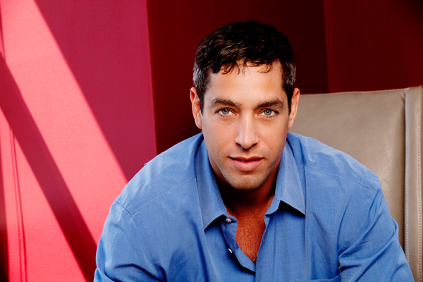 Personal Picture